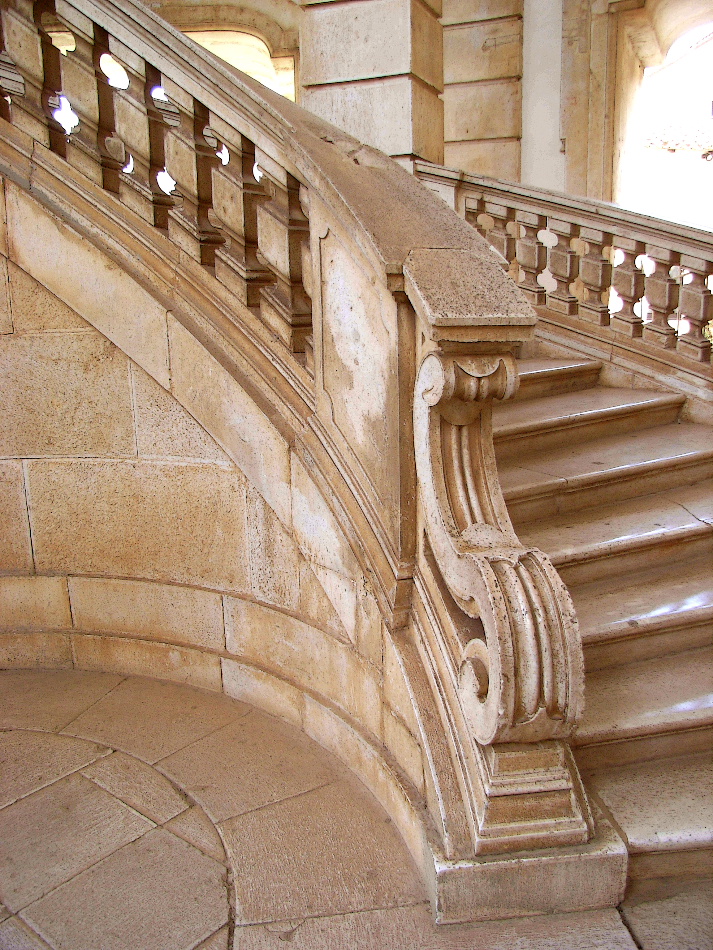 Scalone della Certosa di Padula - Italy.